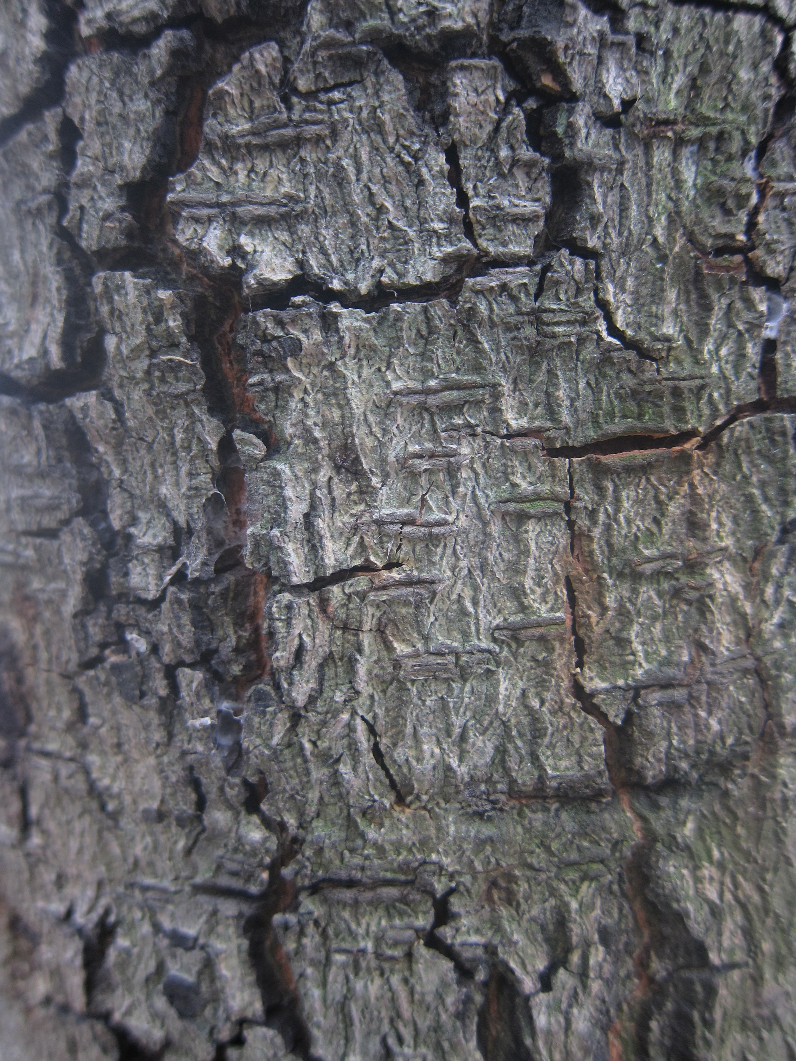 Bark of Albizia lebbeck from a street tree in Quarry Bay